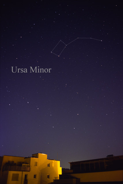 Photography of the constellation Ursa Minor, the little bear